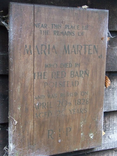 Memorial to Maria Marten. Memorial to Maria Marten in St Marys church yard Polstead Suffolk for more info and 615958